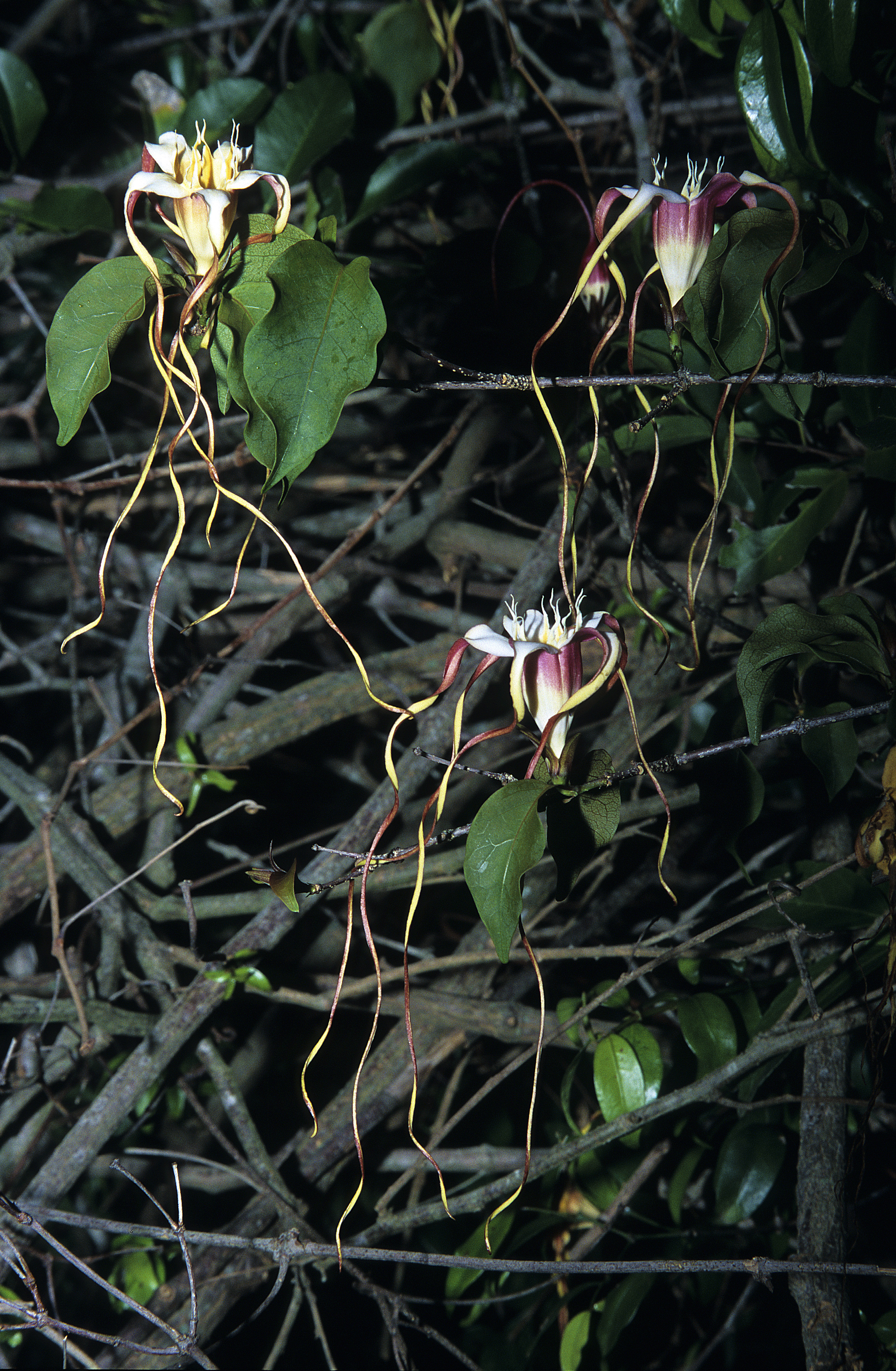 Strophanthus petersianus, flowers; Licuati Thicket, Maputu Province, southern Mozambique